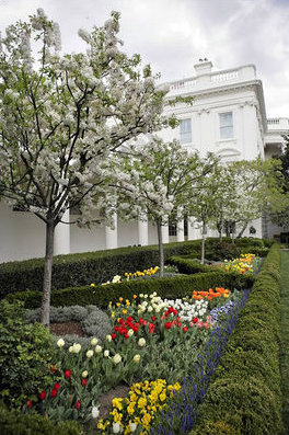 White House photo of Rose Garden.